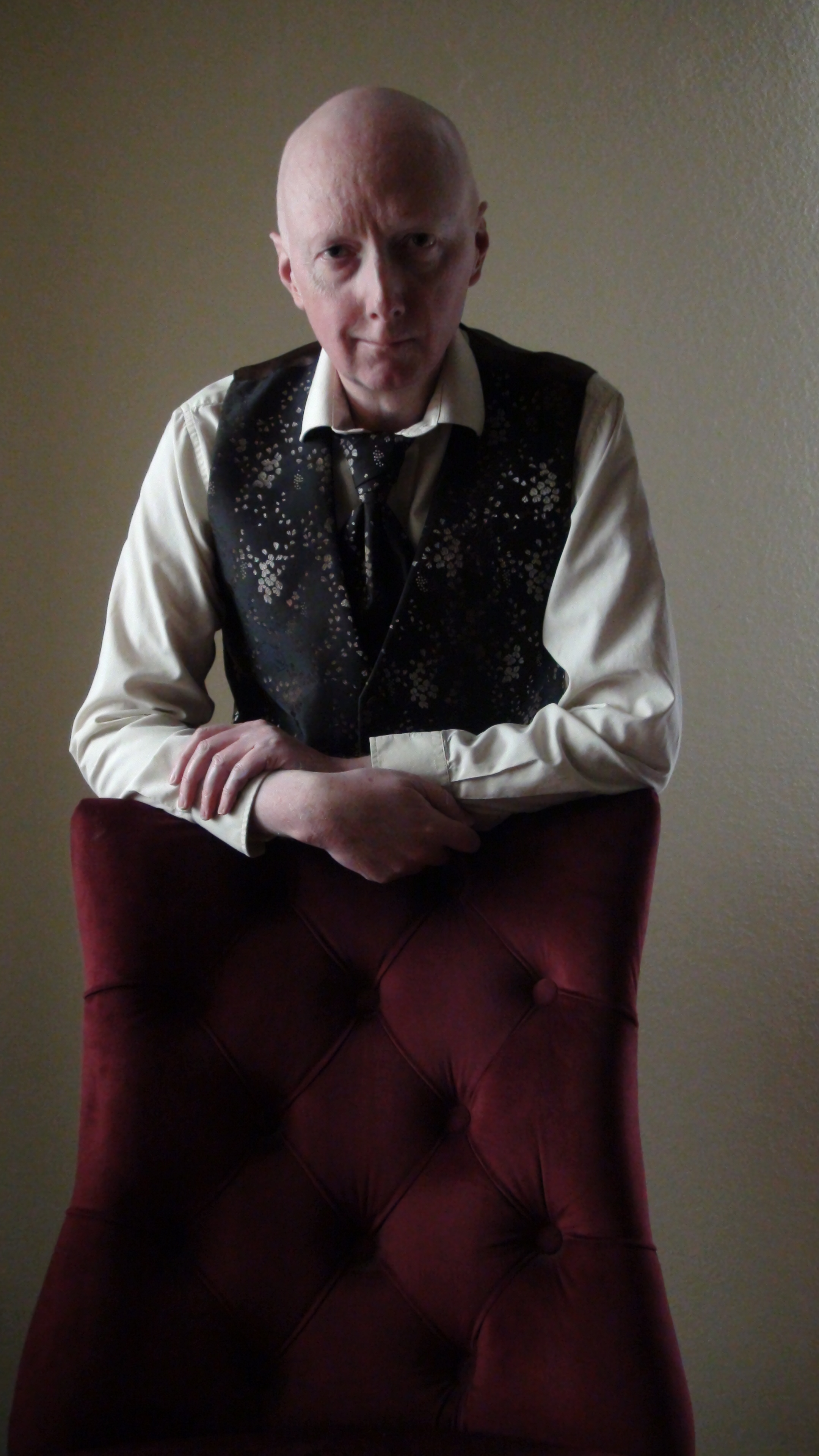 James Peace at home in Wiesbaden